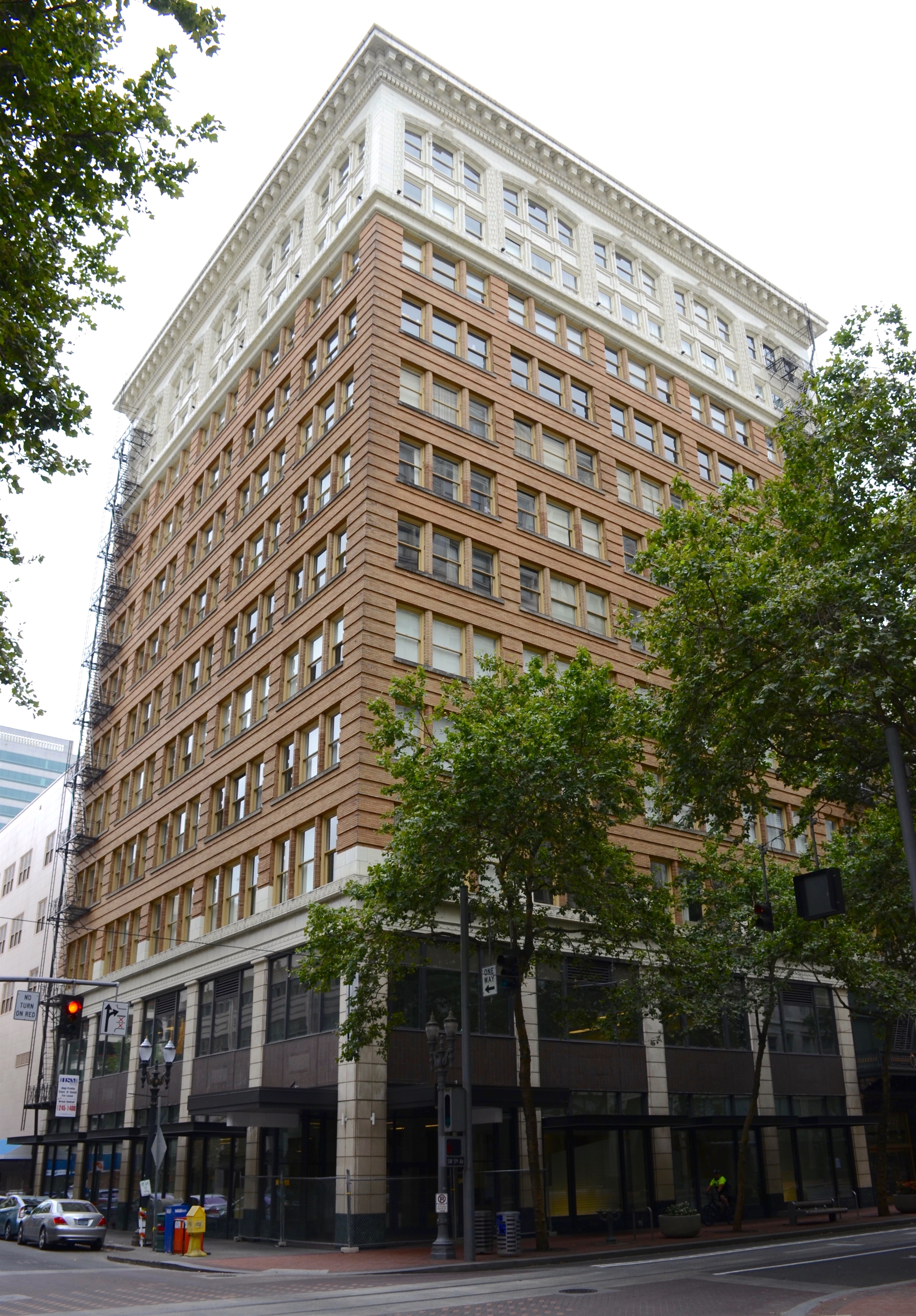 The 620 Building (at 520 SW 5th Avenue), in Portland, Oregon, is listed on the U.S. National Register of Historic Places as the Failing Office Building, and was originally named the Gevurtz Building.